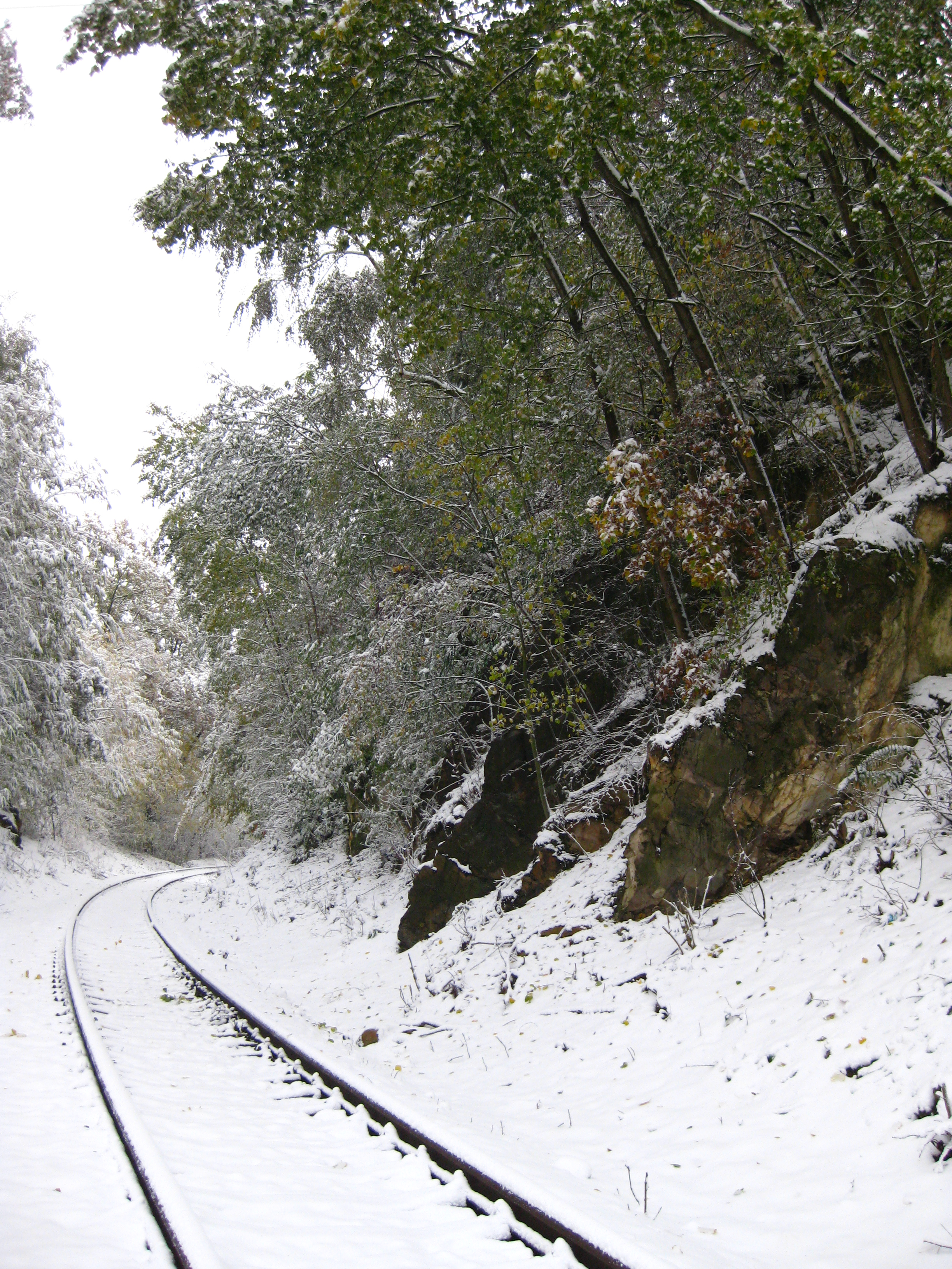 National monument Motolský ordovik in Prague, Czech Republic